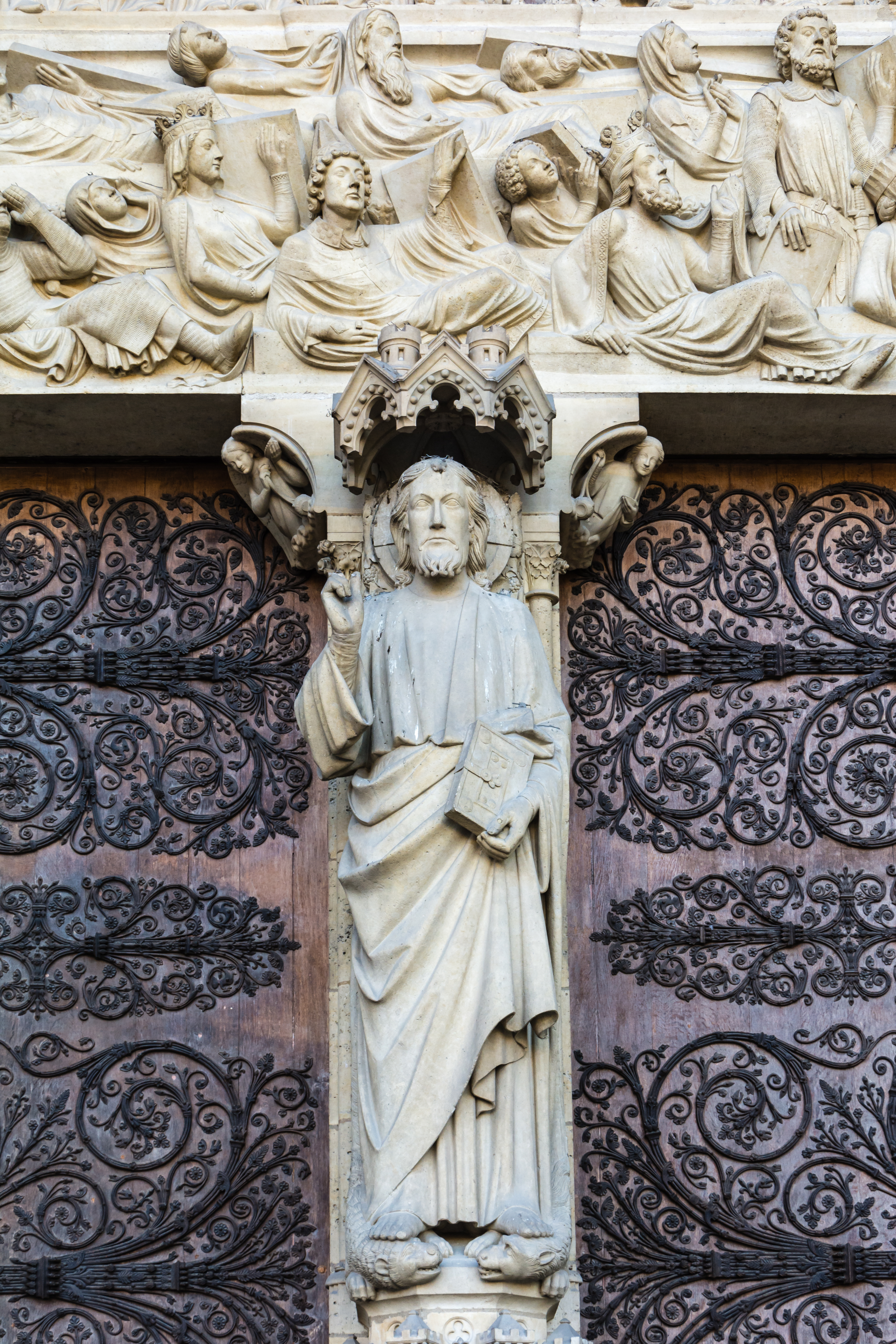 Portal of the Last Judgment (Portail du Jugement Dernier, main portal) of cathedral Notre-Dame de Paris, France